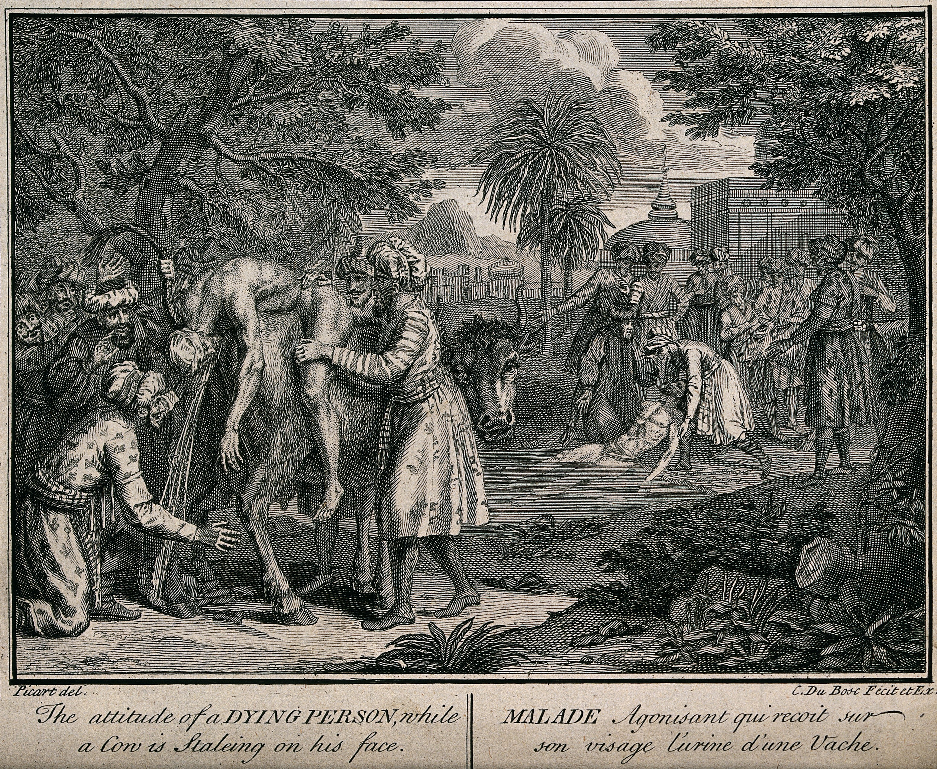 Cow's urine used as a medical treatment in India: a sick man is held over a cow's hindquarters, so that the cow's urine streams onto his face. Iconographic Collections Keywords: Claude Du Bosc; Bernard Picart